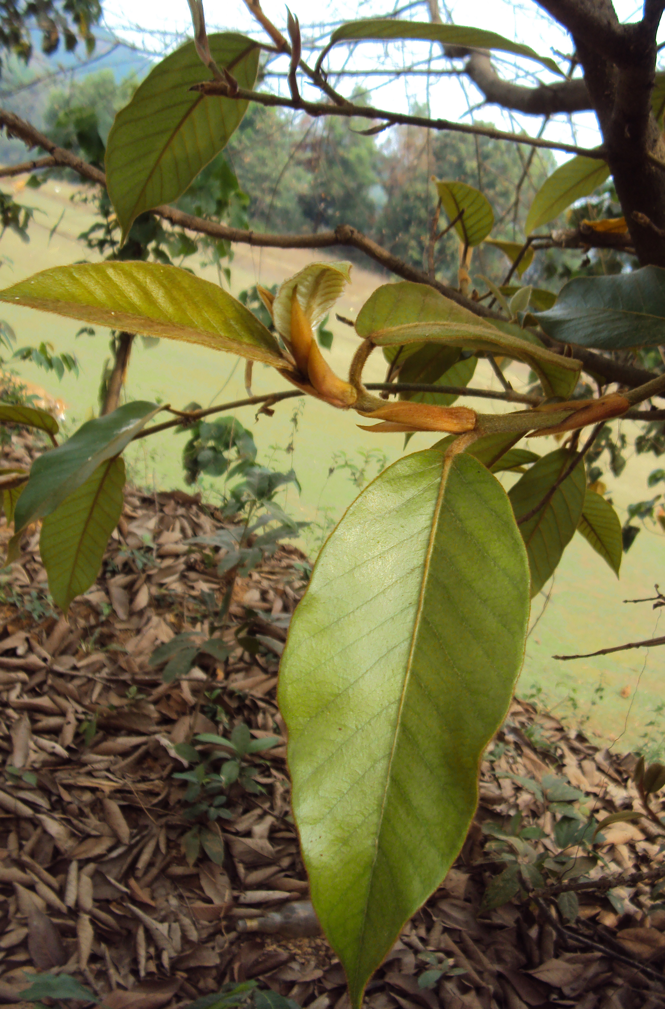 Ficus drupacea